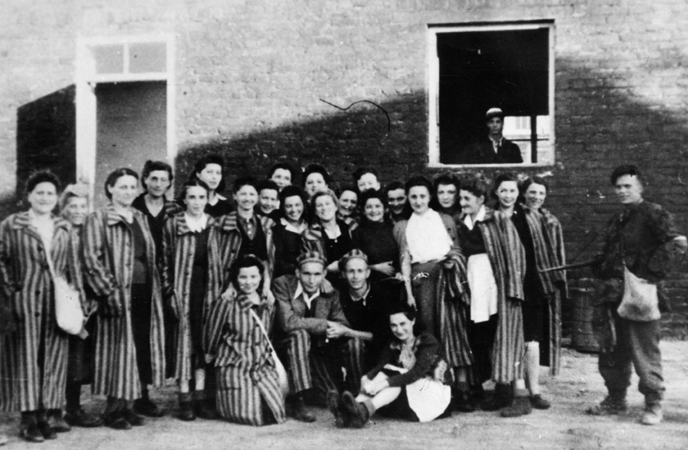 Jewish prisoners of Gęsiowka, a German-Nazi Camp in Warsaw liberated in August 5, 1944 by Polish soldiers from Battalion "Zośka" of Home Army in the beginning of Warsaw Uprising